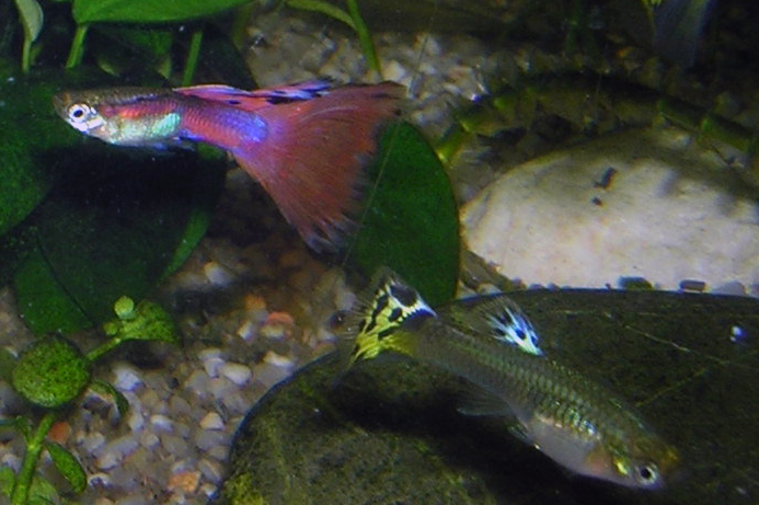 Male and female young guppies (the male here is the red one)